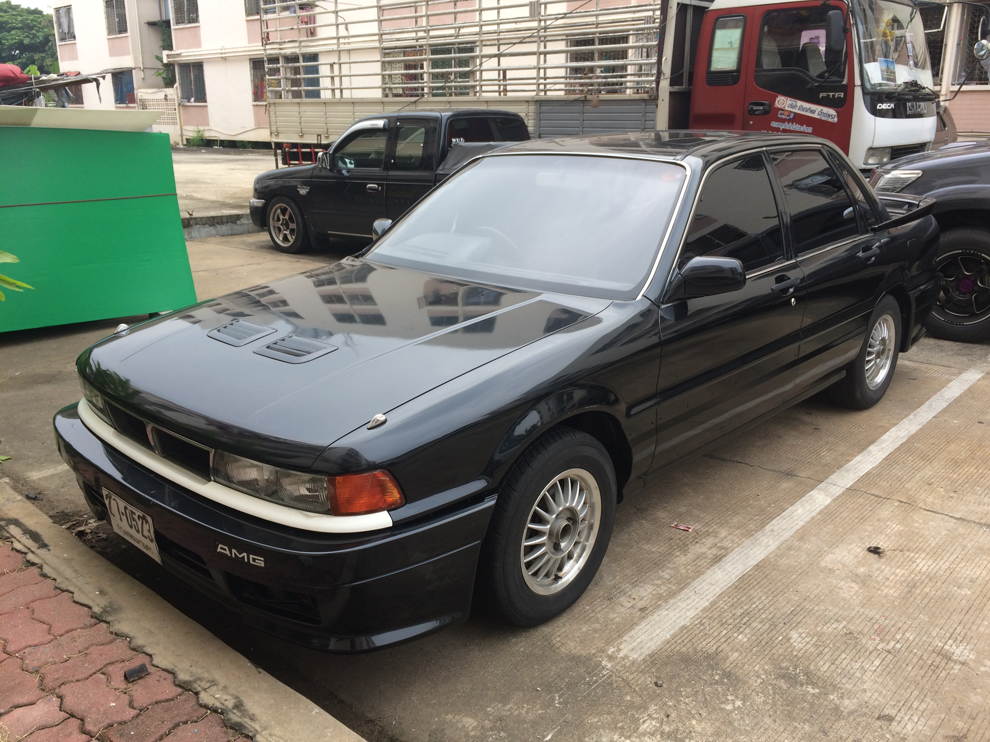 1989 Mitsubishi Galant (E-E33A) AMG Sedan (13-10-2017) in Bangkhen Bangkok Thailand.